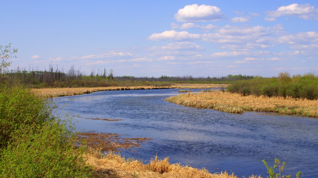 The La Loche River flows out of Lac La Loche to Peter Pond Lake. Taken by the bridge on the Garson Lake Road.